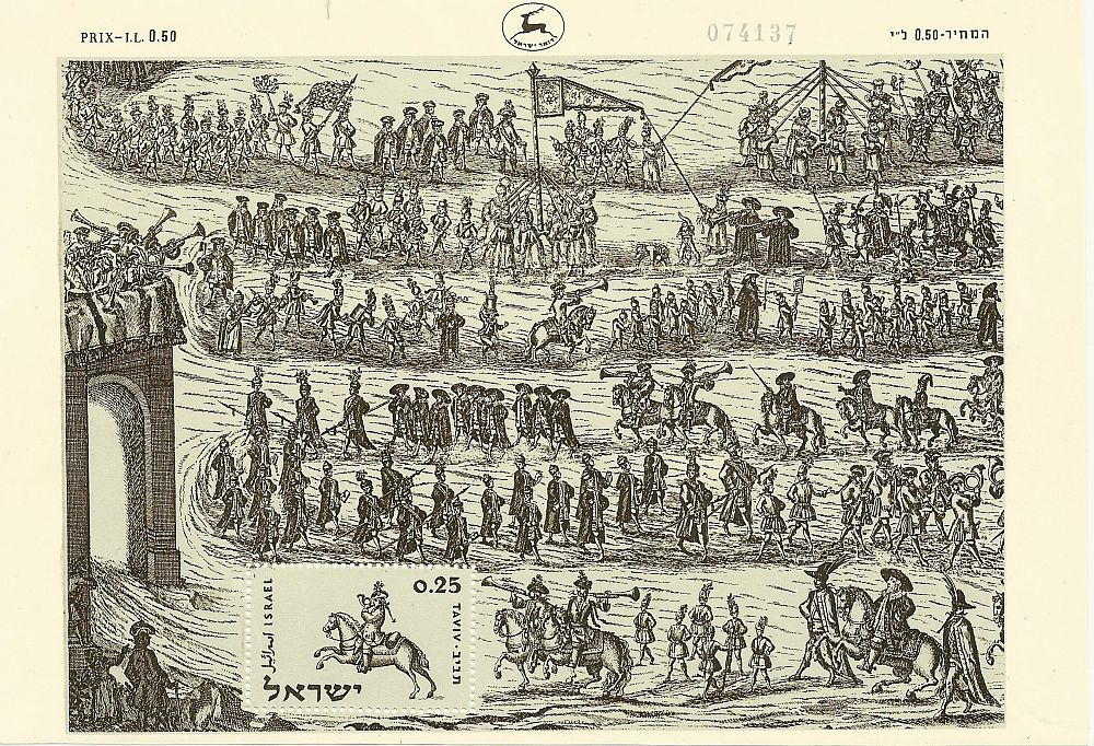 Taviv - Souvenir Sheet. Issued on the occation of the National Stamp Exhibition in Tel-Aviv - TAVIV. Motif: A solemn procession of the Jewish citizens of Prague, led by the postal courier.